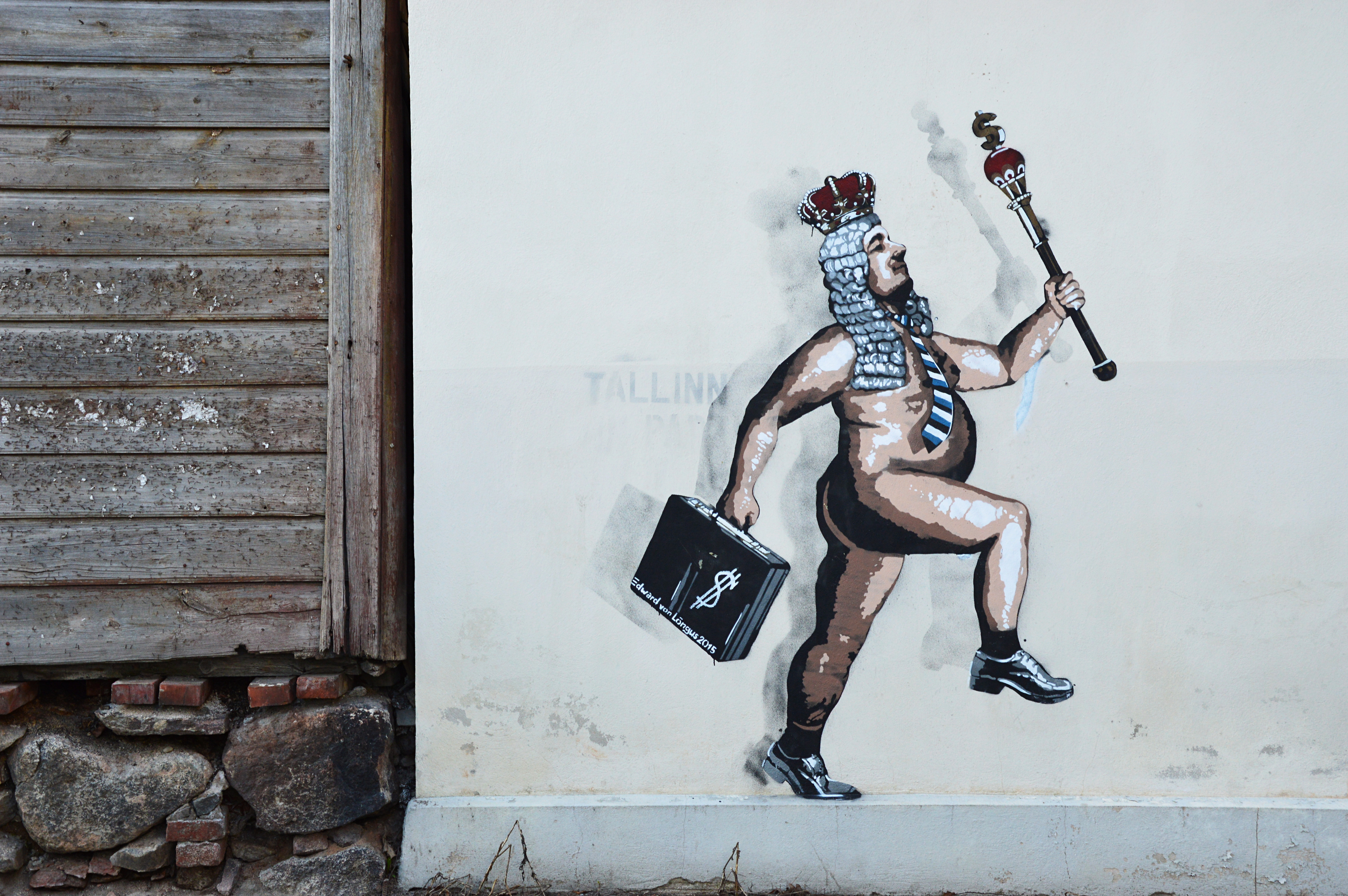 "The naked emperor", stencil graffiti by Edward von Lõngus. Kitsas (Narrow) street in Tartu, Estonia. That work went up before the Estonian parliamentary election in 2015 and caused a lot of stir. It was also made in Tallinn, but in there the local city government ordered it to be removed.